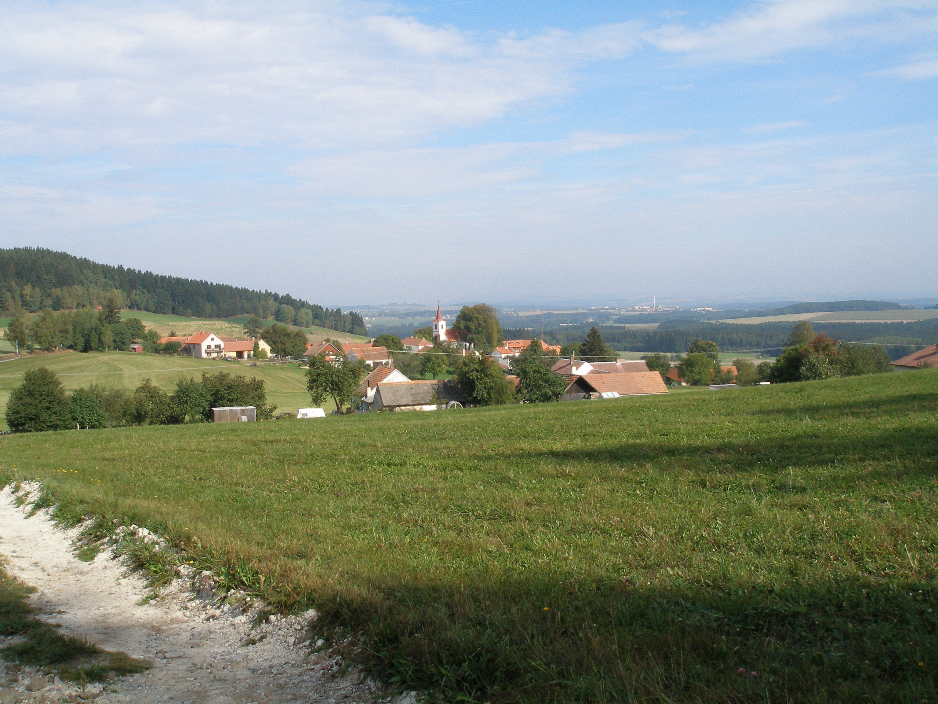 Věžovatá Pláně, the general view